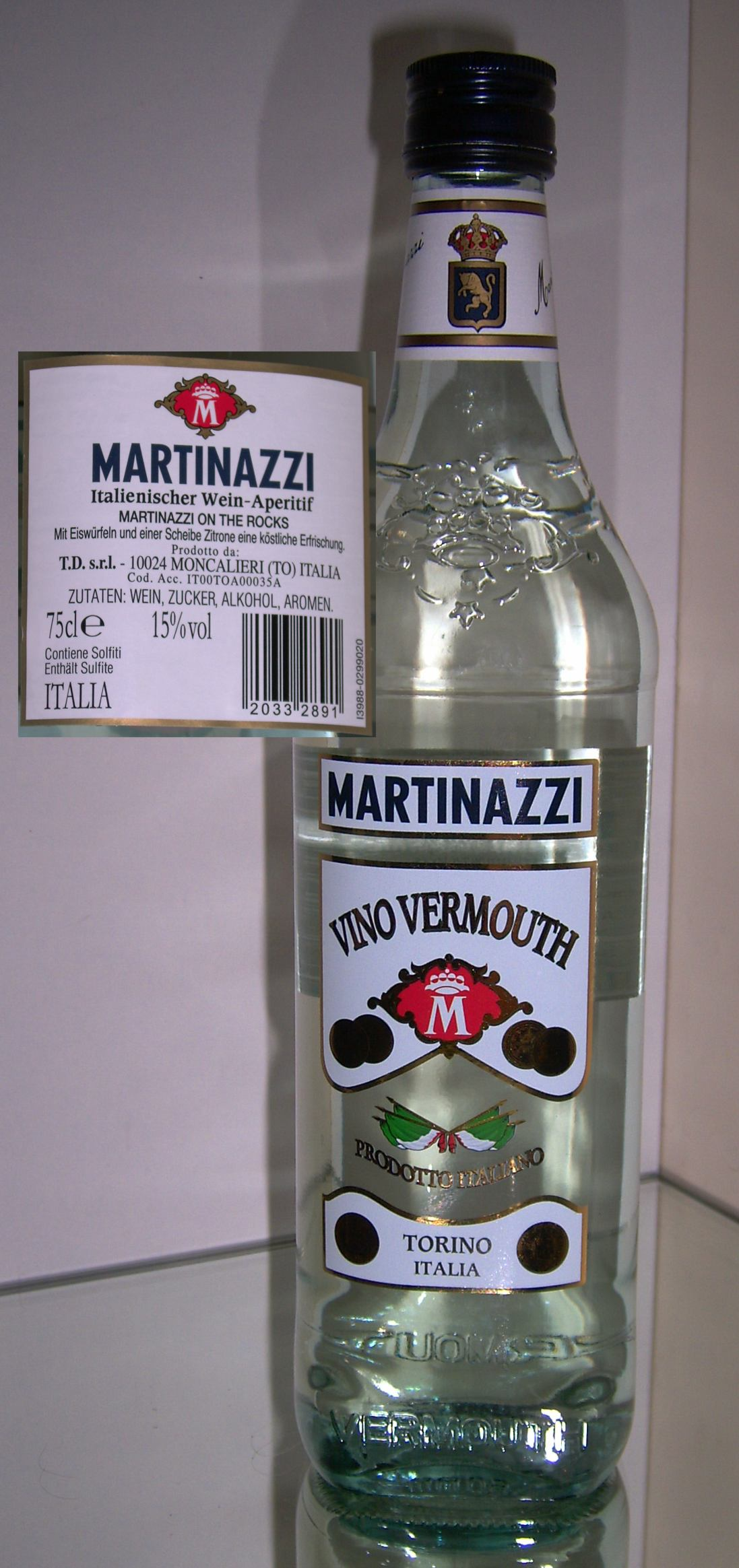 Martinazzi white 0.75l 15%vol sold in Germany